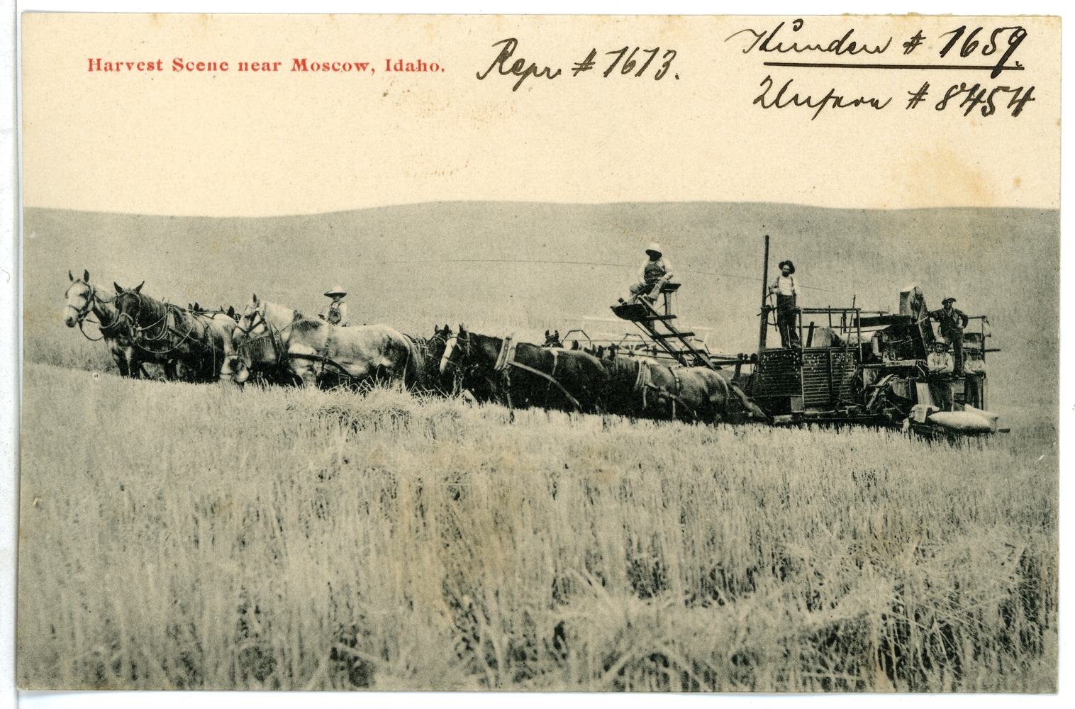 This postcard is from publisher Brück & Sohn in Meißen ( This postcard has a unique number 08454 and is available in a higher resolution at the publisher. This images was uploaded in a cooperation project between Wikipedians and the publisher.